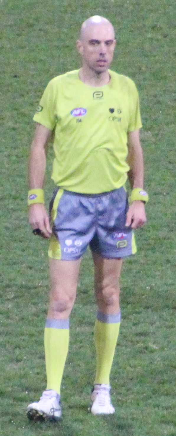 Mathew Nicholls umpiring at a game between the Gold Coast Suns and the Brisbane Lions on 12 August 2017